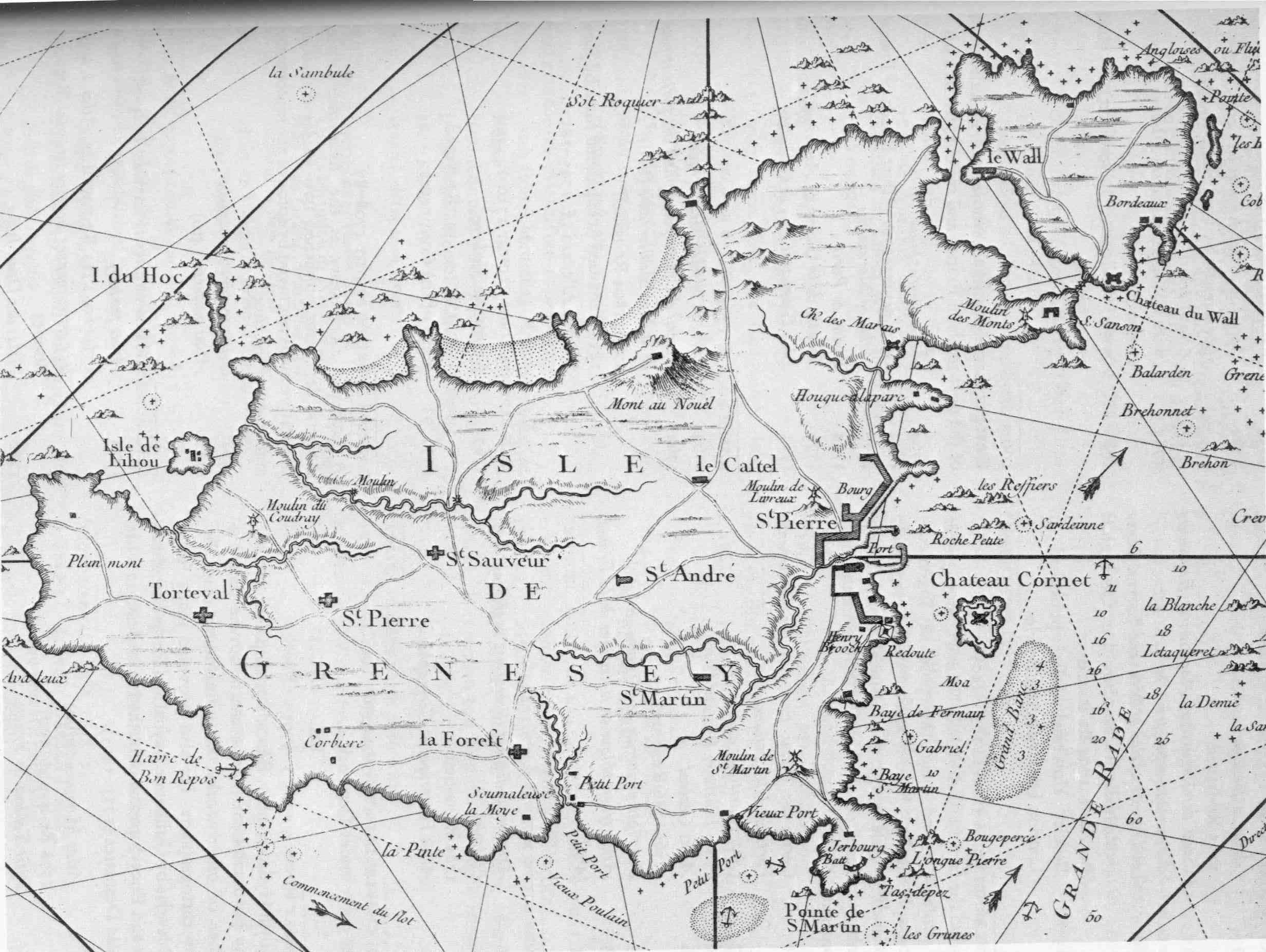 Frenche map of Guernsey ("Grenesey"), Channel Islands, of 1757